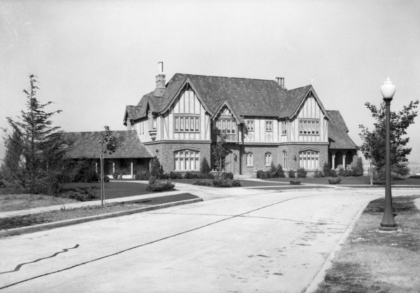 Cheviot Hills Historical Photo